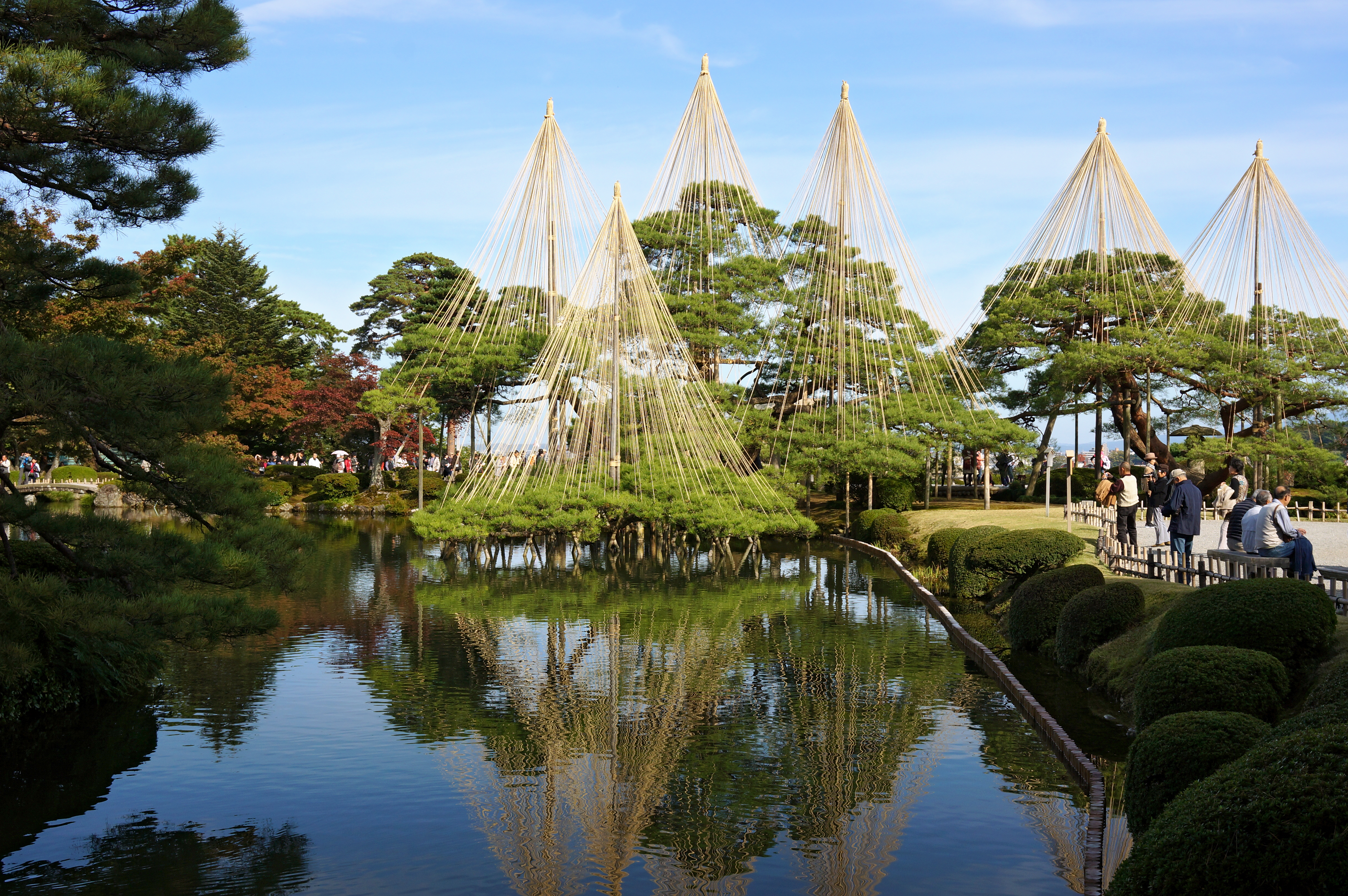 At Kenroku-en in Kanazawa, Ishikawa prefecture, Japan.